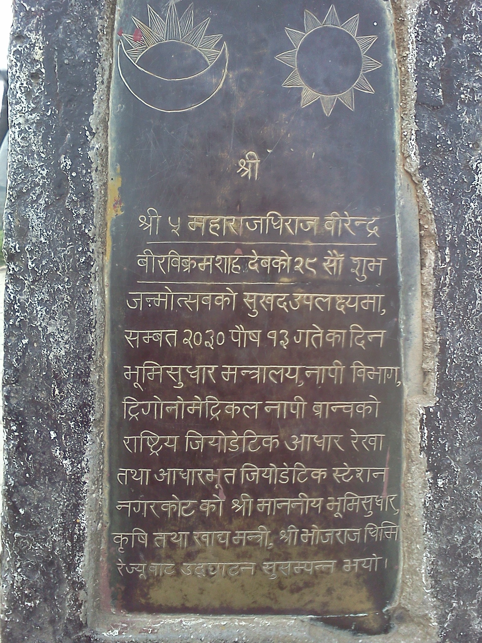 Script about Trigonometric Station Geodetic Observatory Nagarkot Nepal